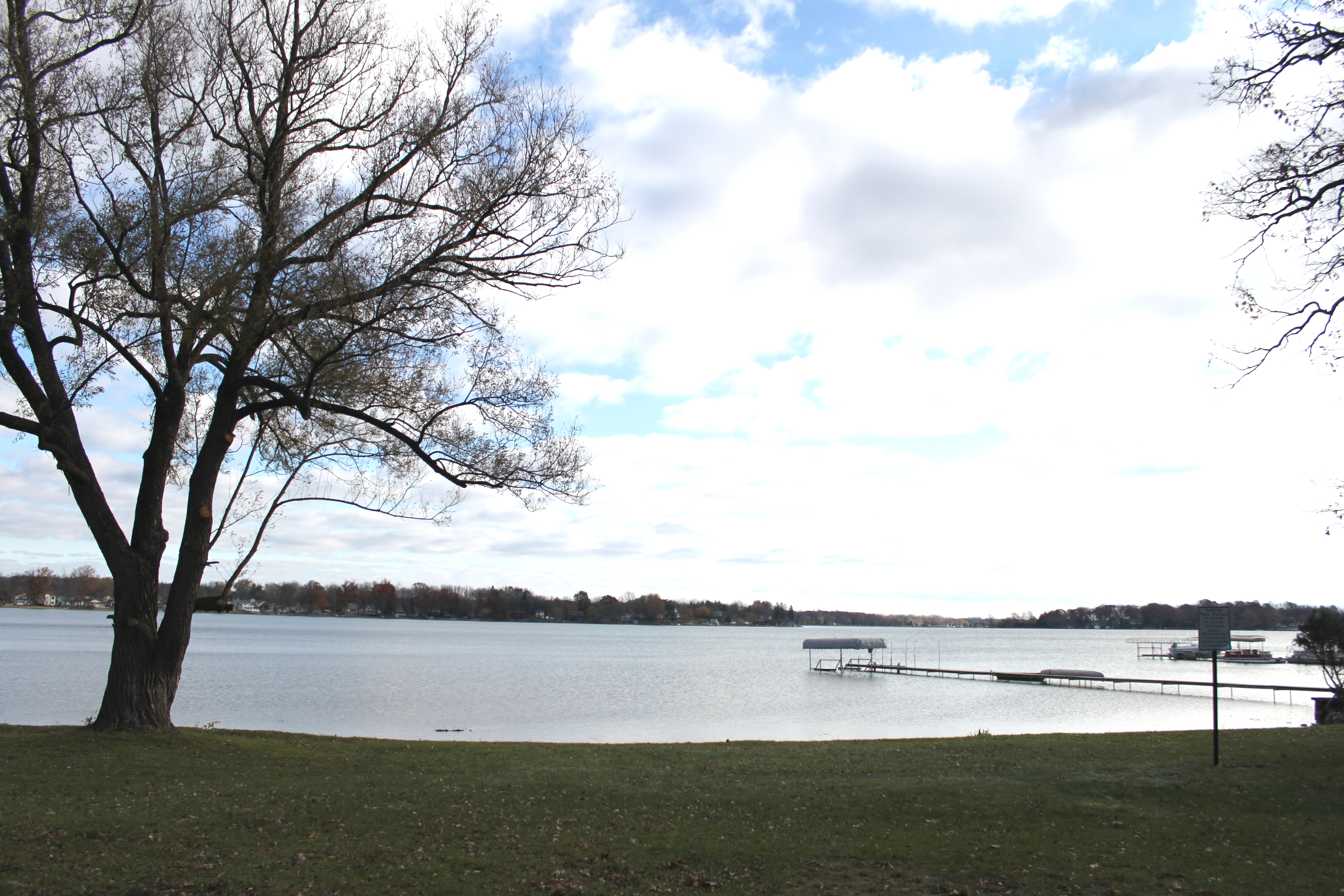 Clark Lake, Columbia Township, Michigan. Viewed from Columbia Township Park, facing east.